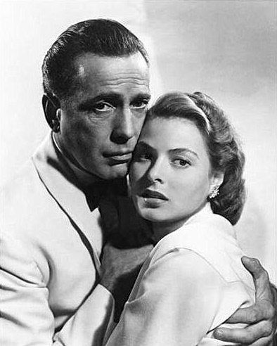 Promotional still of Humphrey Bogart and Ingrid Bergman in American romance film Casablanca (1942). See also film still. No copyright notice.